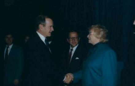 PRESIDENT BUSH ADDRESSES A FUNDRAISING BREAKFAST FOR ARLISS STURGULEWSKI FOR GOVERNOR OF ALASKA AT THE SHERATON CARLTON.